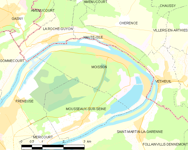 Map of French municipality Moisson